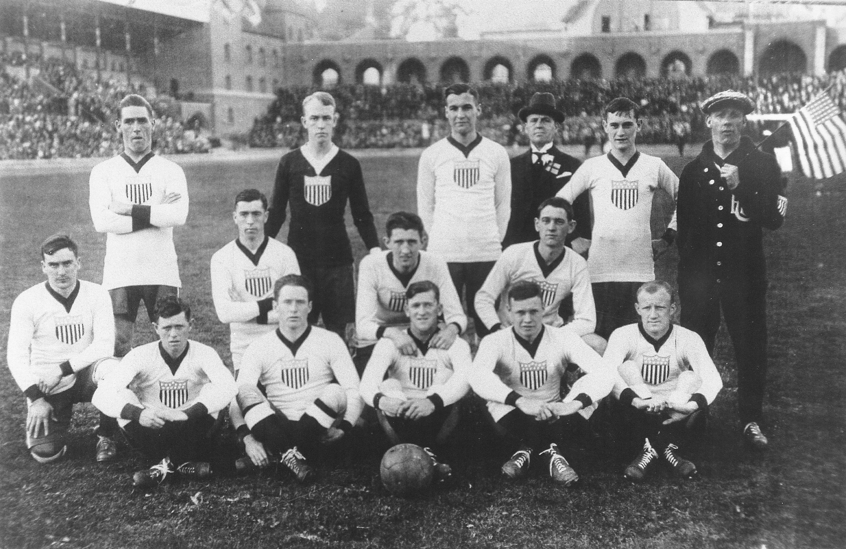 The United States men's national soccer team (named "All-America" by the media) which toured Norway and Sweden during Ago-Sep 1916.[1]